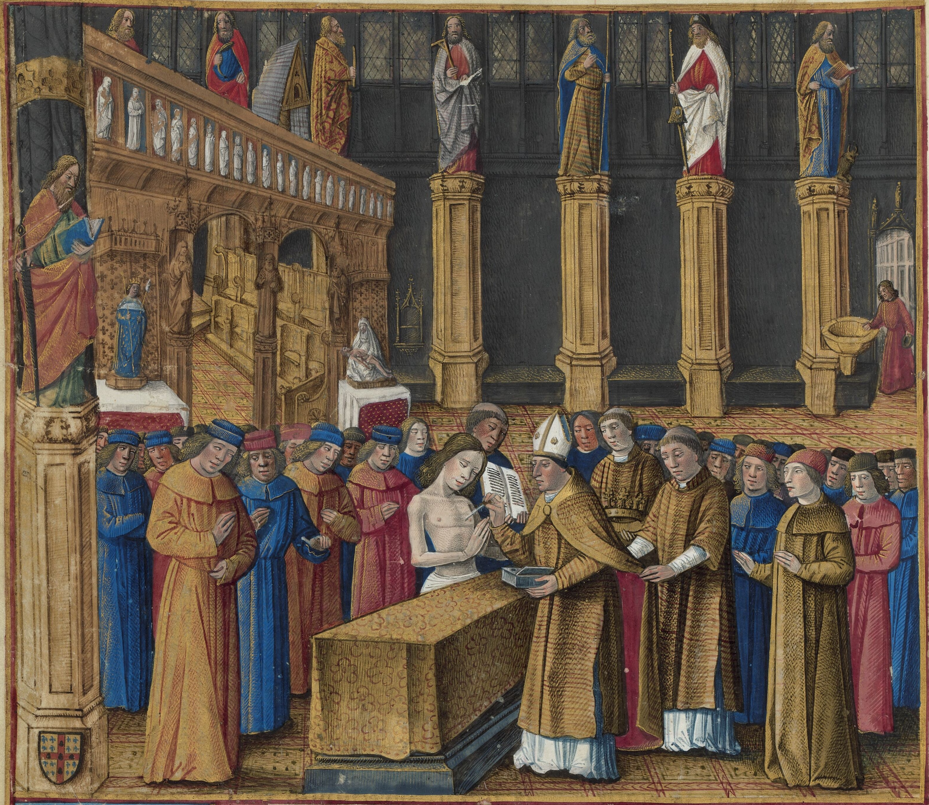 Miniature: anointing of Baldwin IV